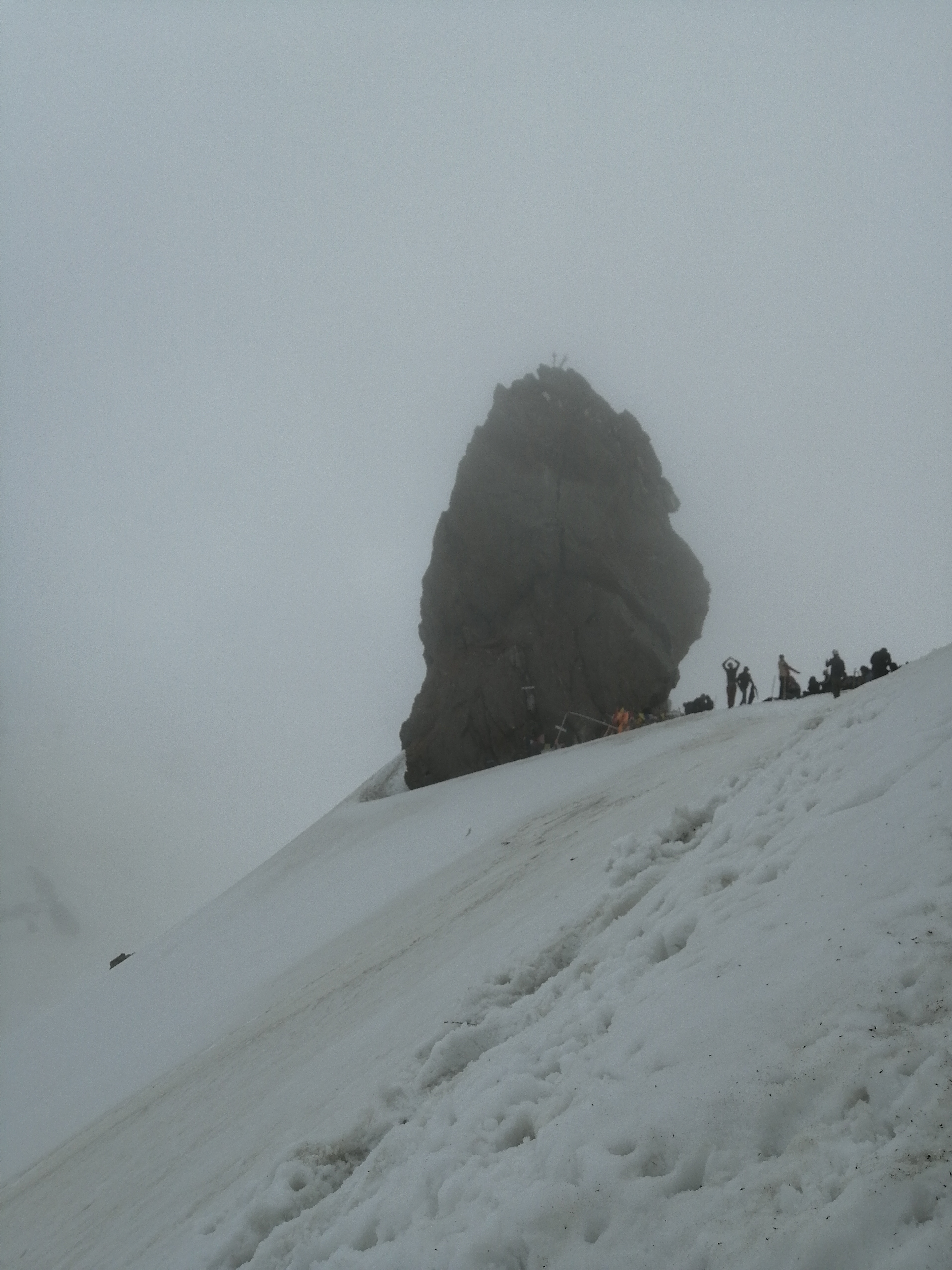 Because of Him We are alive. Jai Shiv Shankar. Om Namah Shivay